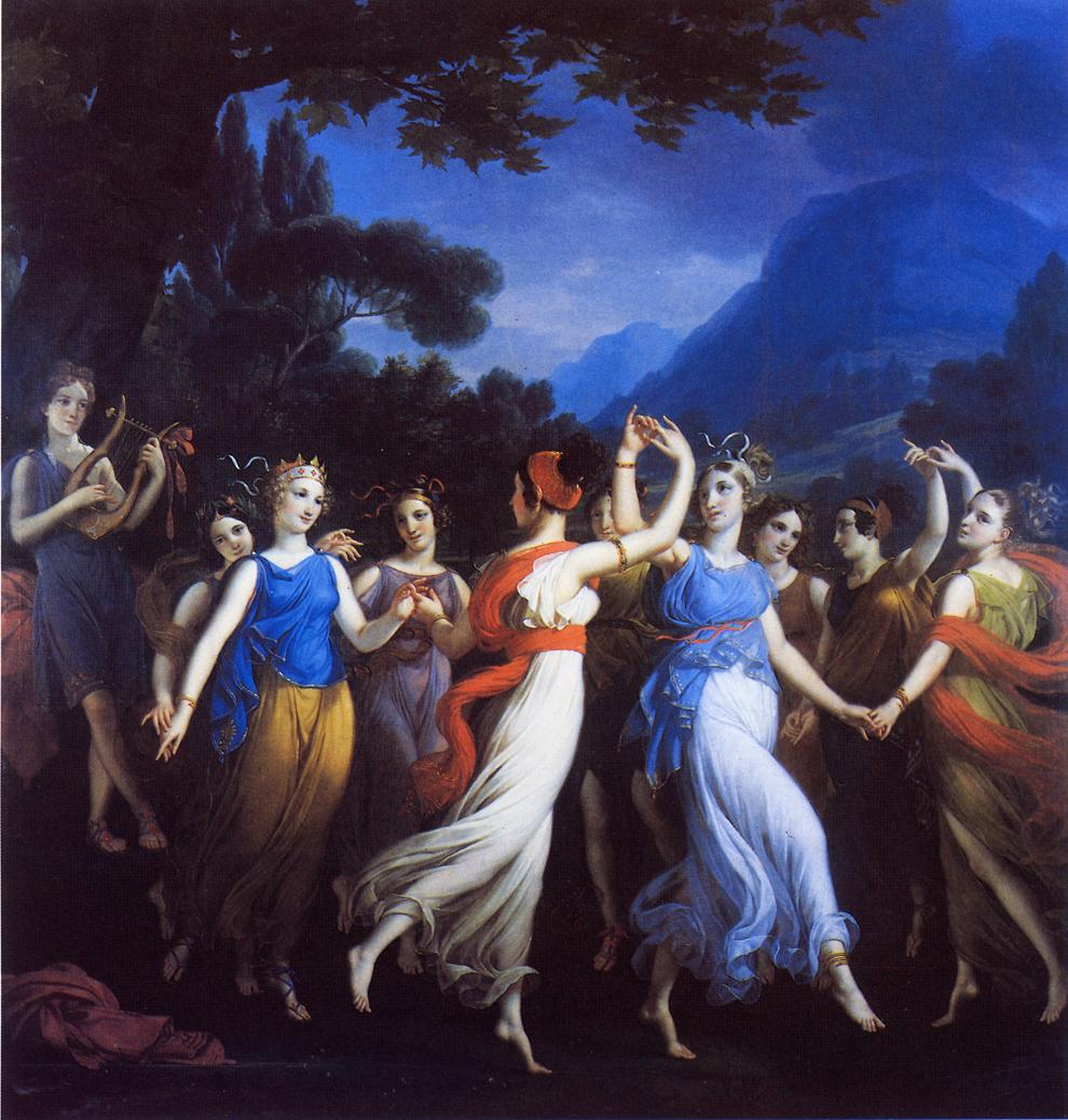 311.79 × 296.55 cm (122.75 × 116.75 in)